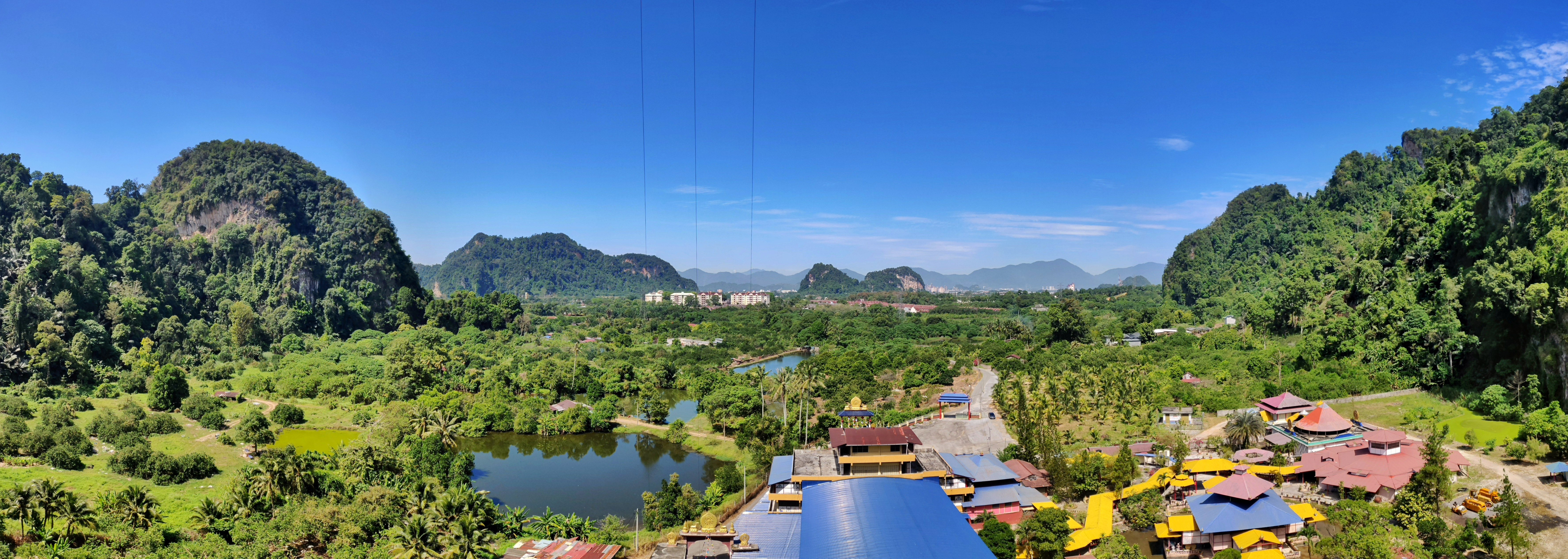 Tibetan Temple in Tambun of Ipoh, Perak, Malaysia.